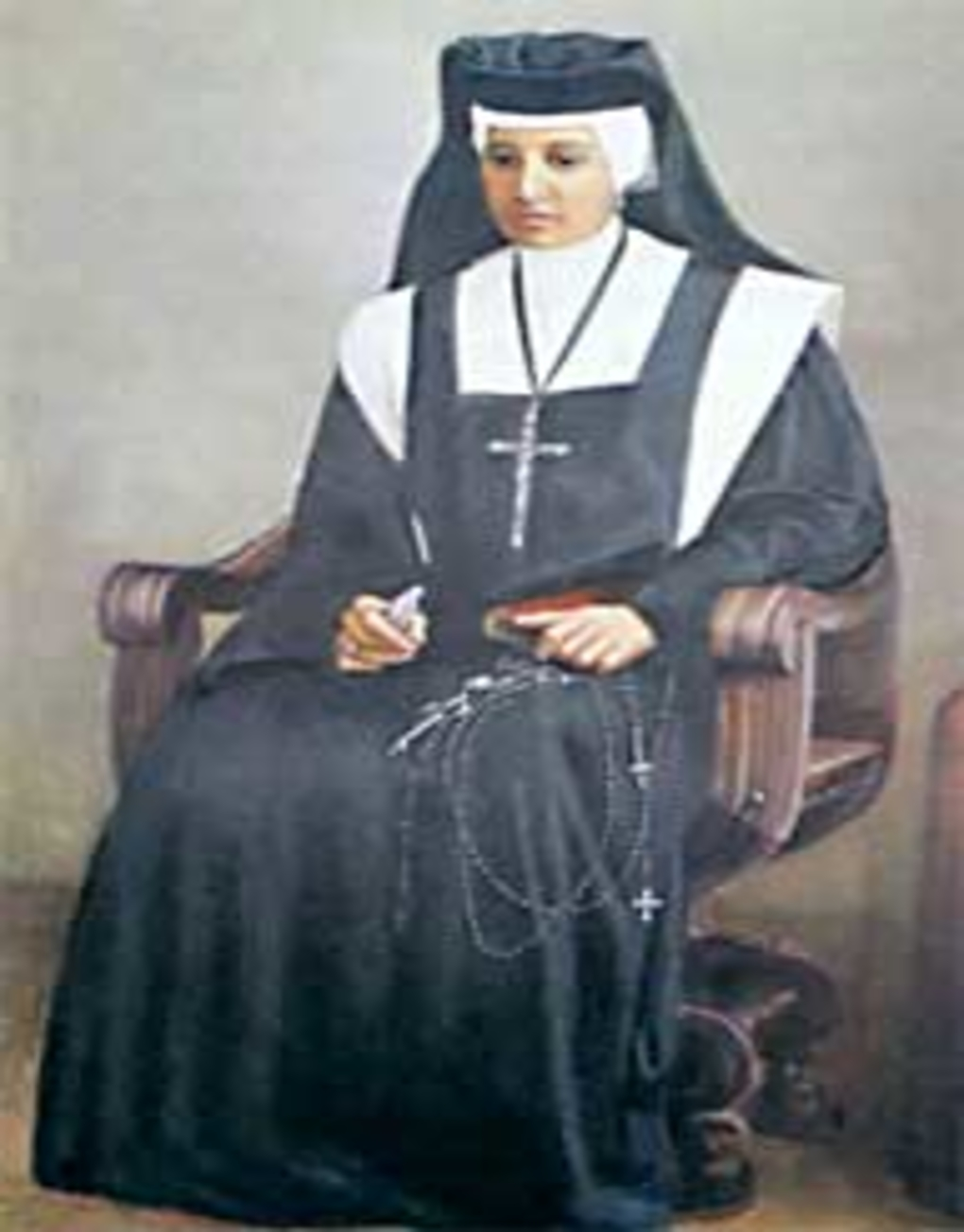 Primera venezolana elevada a los altares por la Iglesia Católica